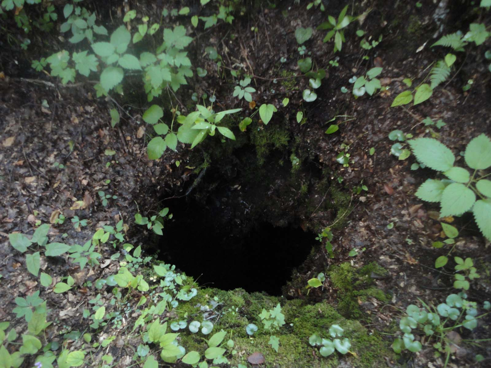 Opening of the cave of Debliške Livade in Kočevski Rog (Slovenia) at the site of mass murder of Slovenian domobrans, Ustasha and Chetniks by Jugoslav partisans after WWII (May and June 1945).